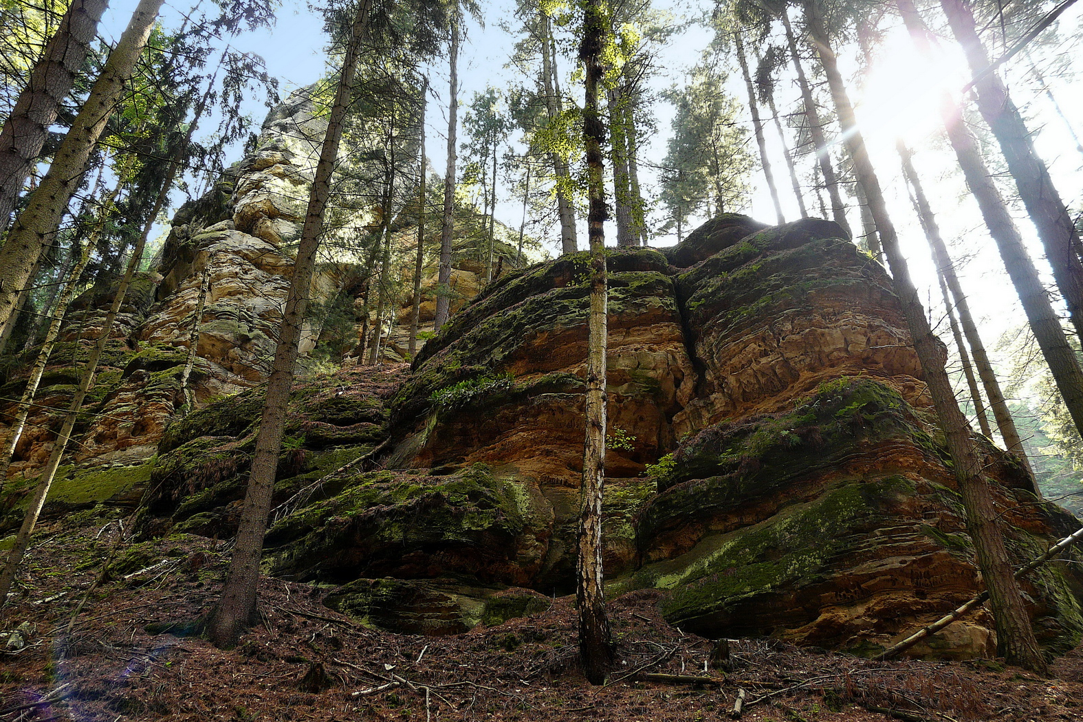 Pískovcové skály v oboře Žehrov